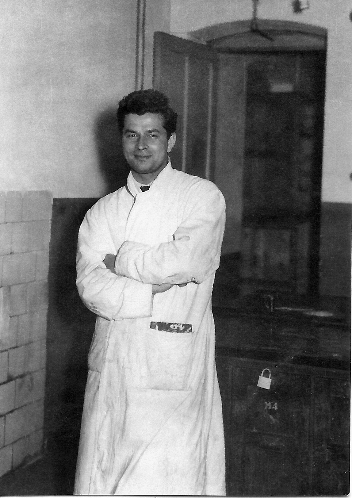 Fikri Alican, as a young doctor, in May 1955, the year he graduated from medical school at age 26.